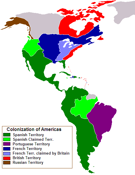 Map of European colonization of the Americas in 1750 Source file: Based upon Image:Spanish colonization of the Americas.png by Satesclop